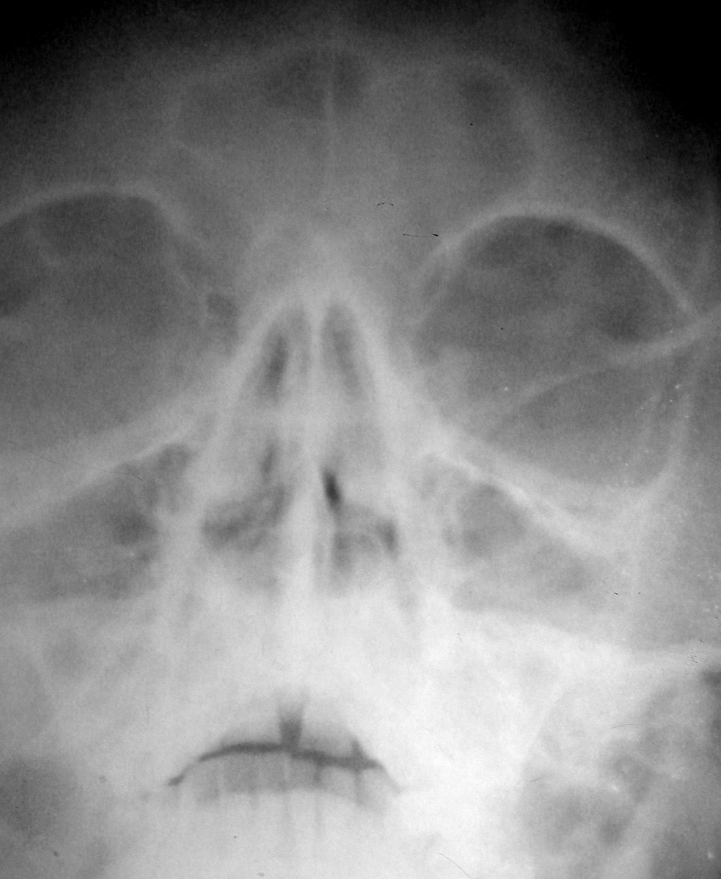 Patient X-ray with confirmed lately inflamation in frontal sinuses.